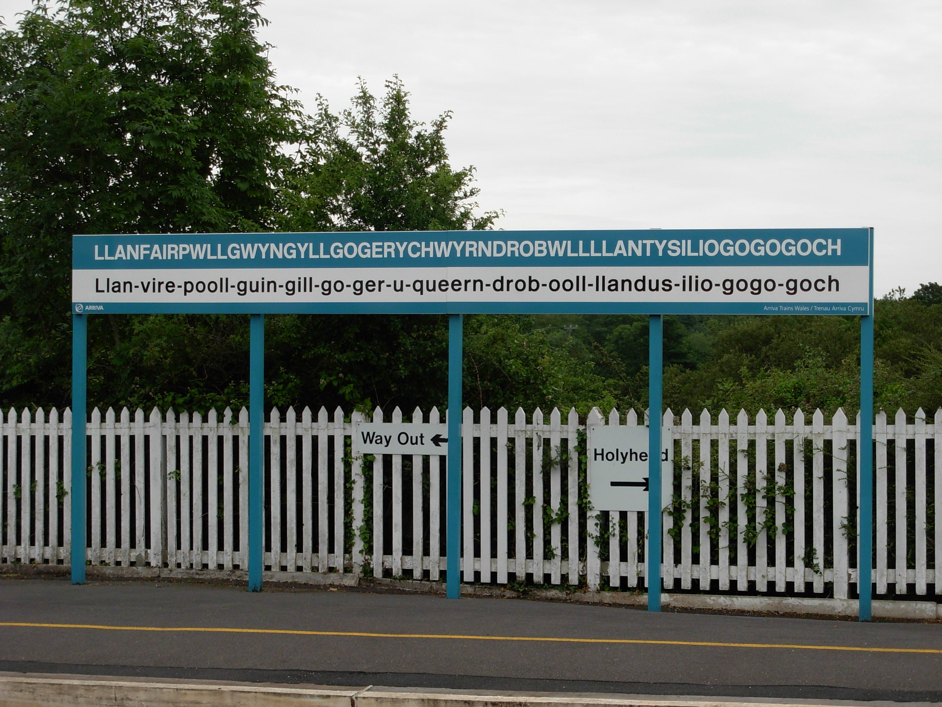 Llanfair PG railway station sign